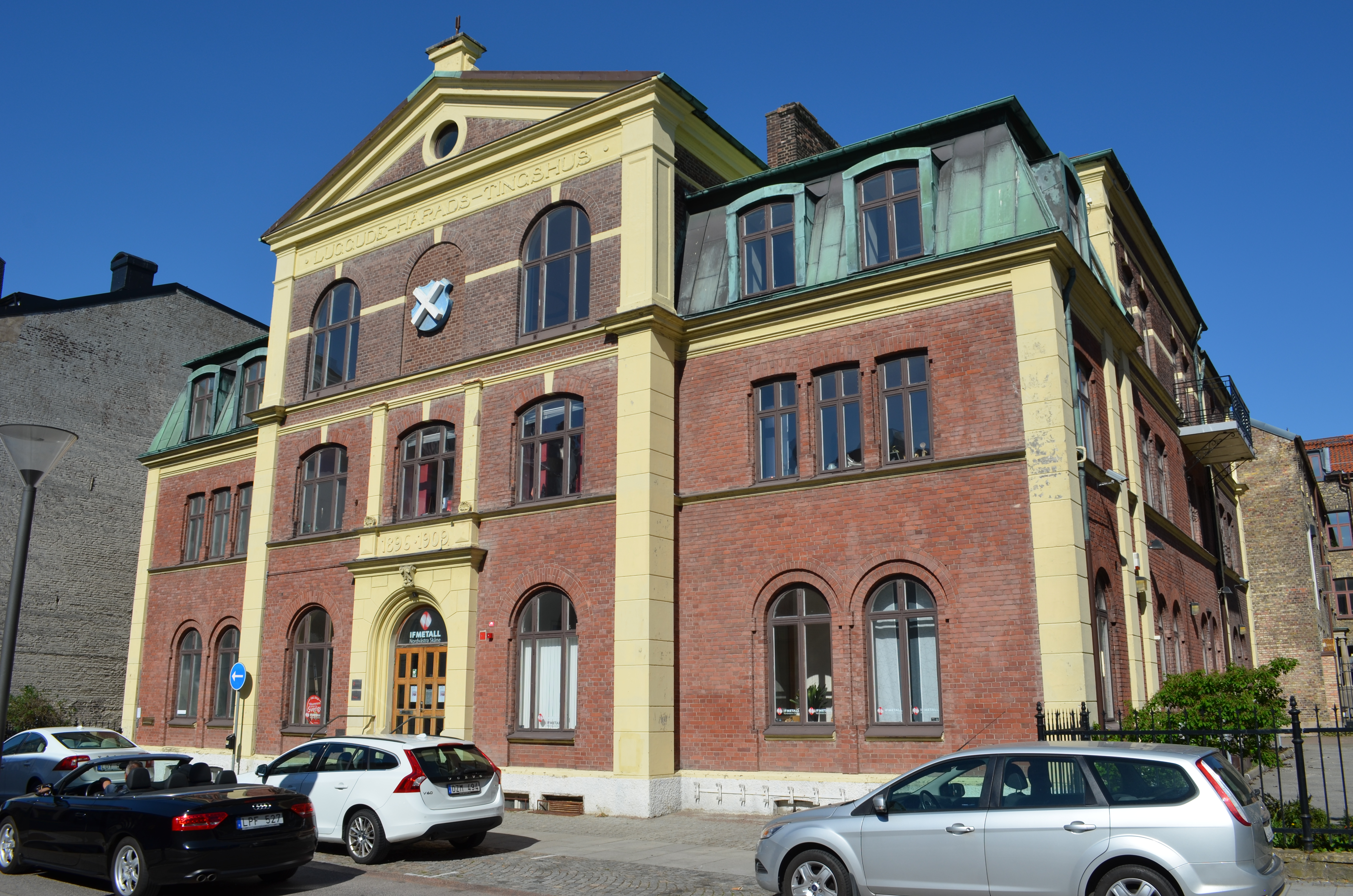 Court house of Luggude hundred in Helsingborg